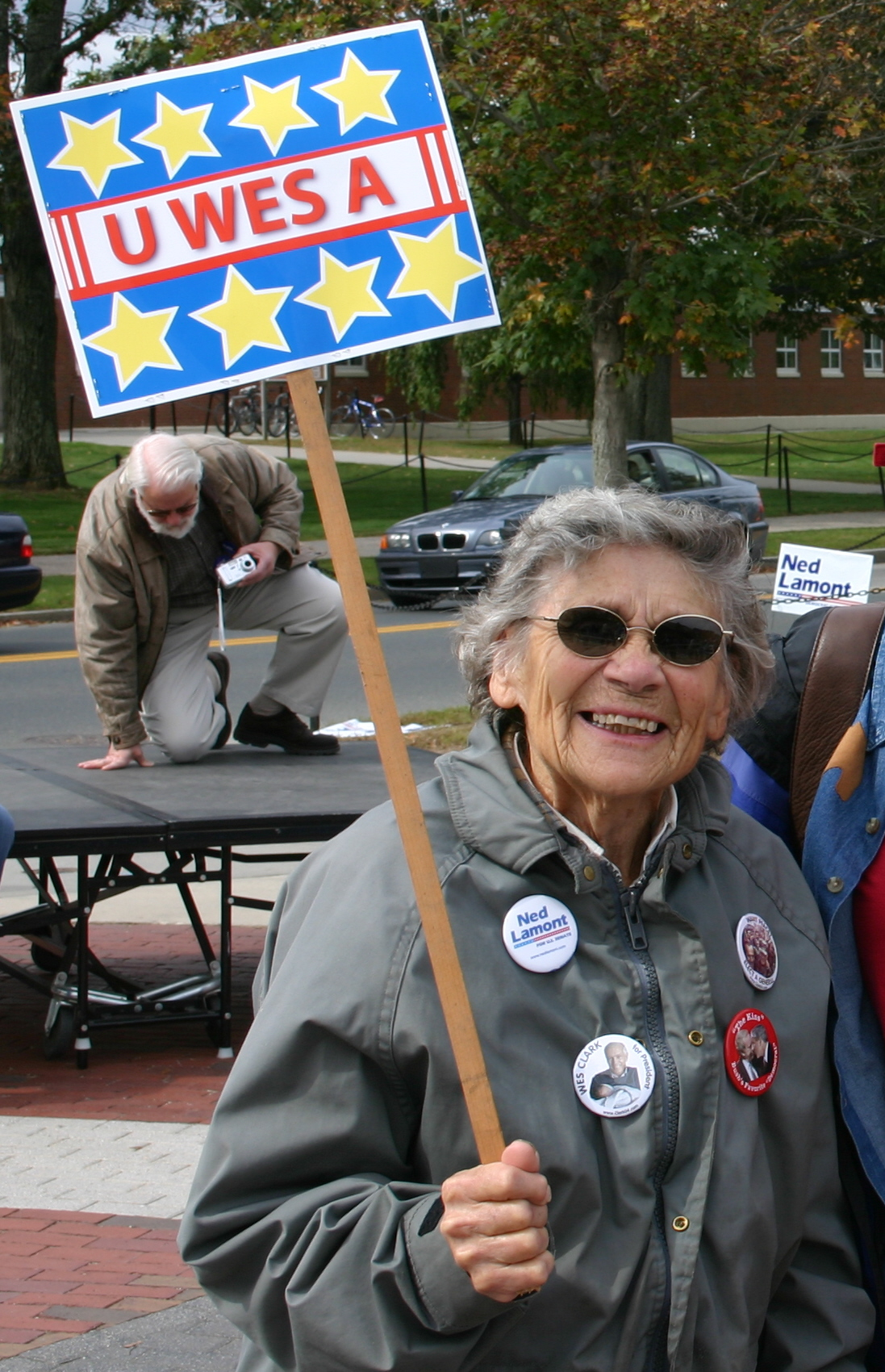 Source: Myself Summary: Woman holding a sign for Wesley Clark at a Ned Lamont rally.